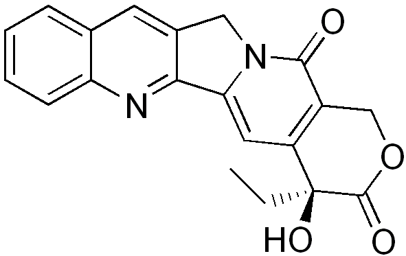 Chemical structure of camptothecin.